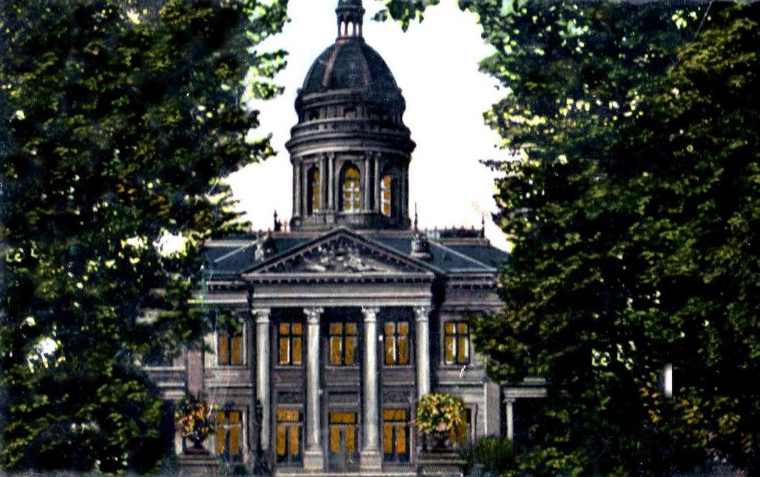 castle wiebendorf